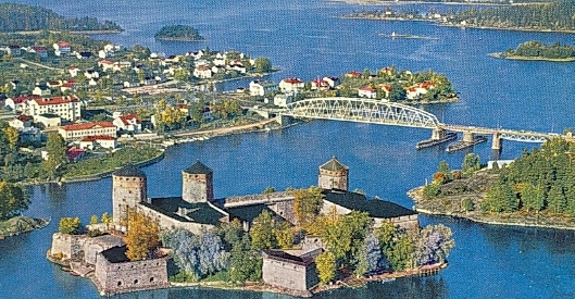 Olavinlinna in Savonlinna, Finland from air